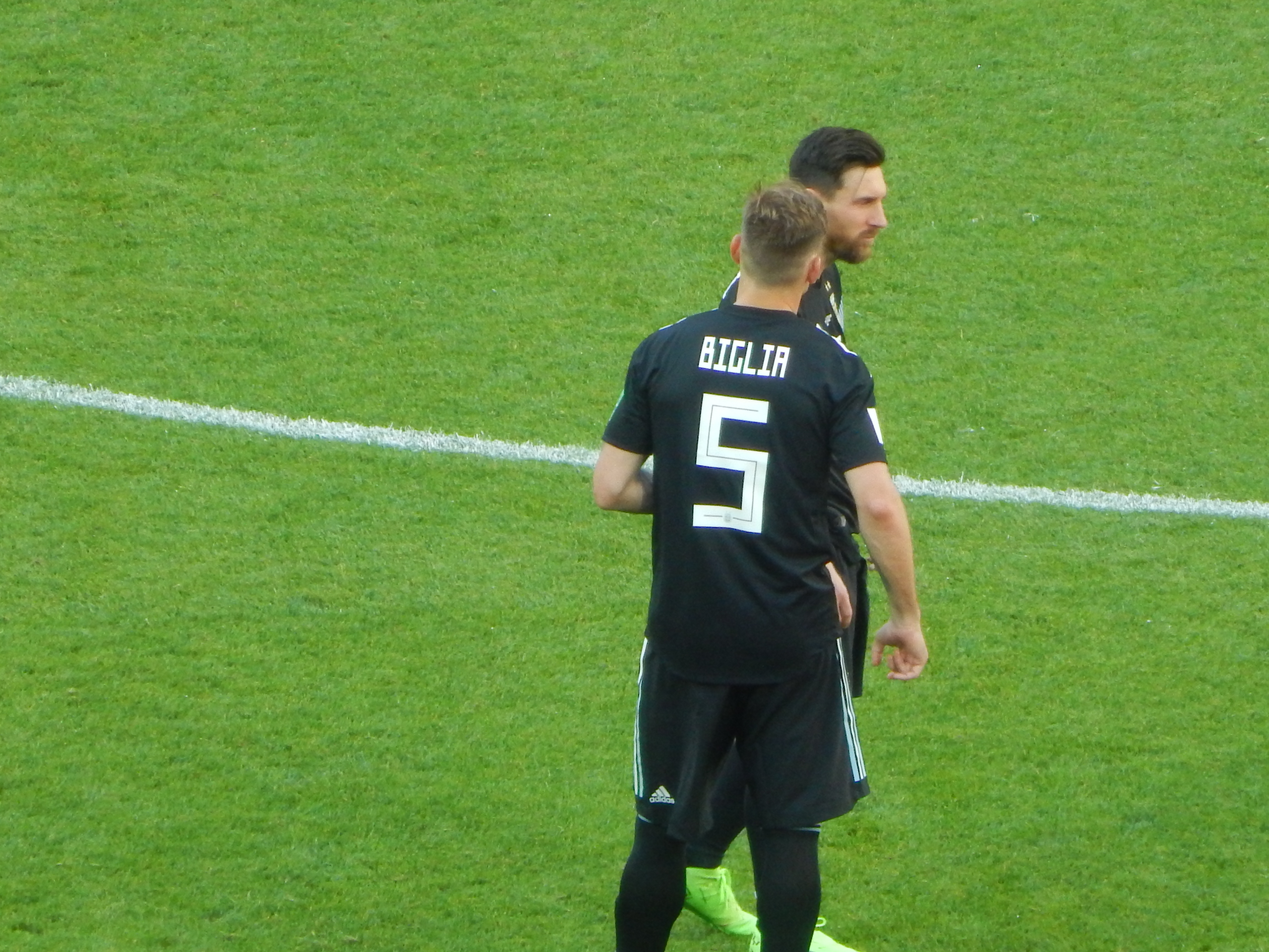 FIFA World Cup 2018, Group D, Argentina vs. Iceland